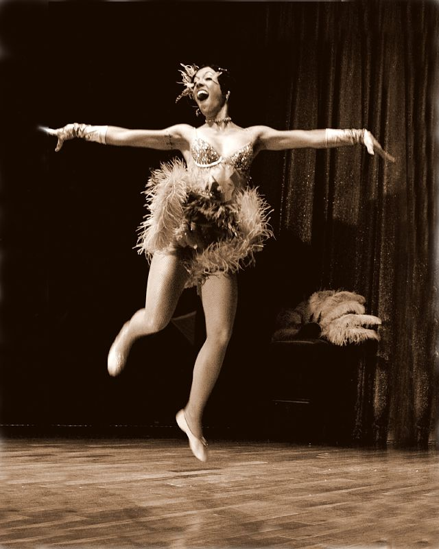 Lux La Croix at Miss Exotic World, 2006.